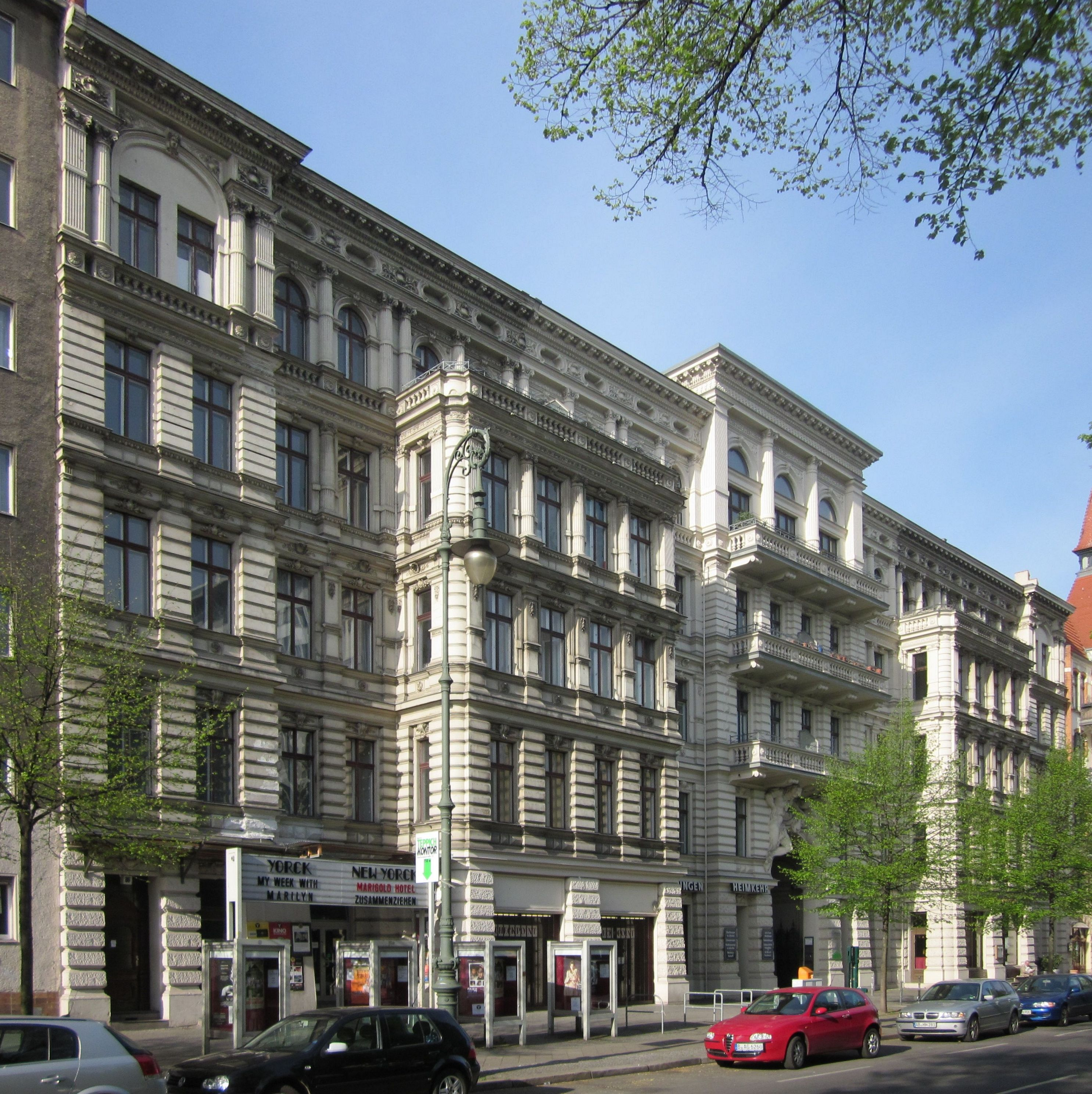 The residential complex Riehmers Hofgarten (Riehmer's Courtyard Garden), here the facade at Yorkstraße No. 83-86, in Berlin-Kreuzberg. The large complex with two more facades on Großbeerenstraße and on Hagelberger Straße was built from 1880 to 1899 to designs by Wilhelm Riehmer and Otto Mrosk. The whole complex including court and front gardens has been desinated as a cultural heritage monument. It is also belongs to the protected historic buildings area Quartier Riehmers Hofgarten.